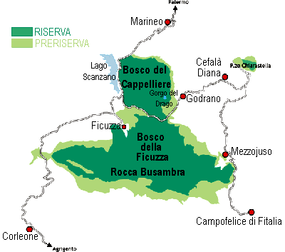 Bosco della Ficuzza map (Sicily)